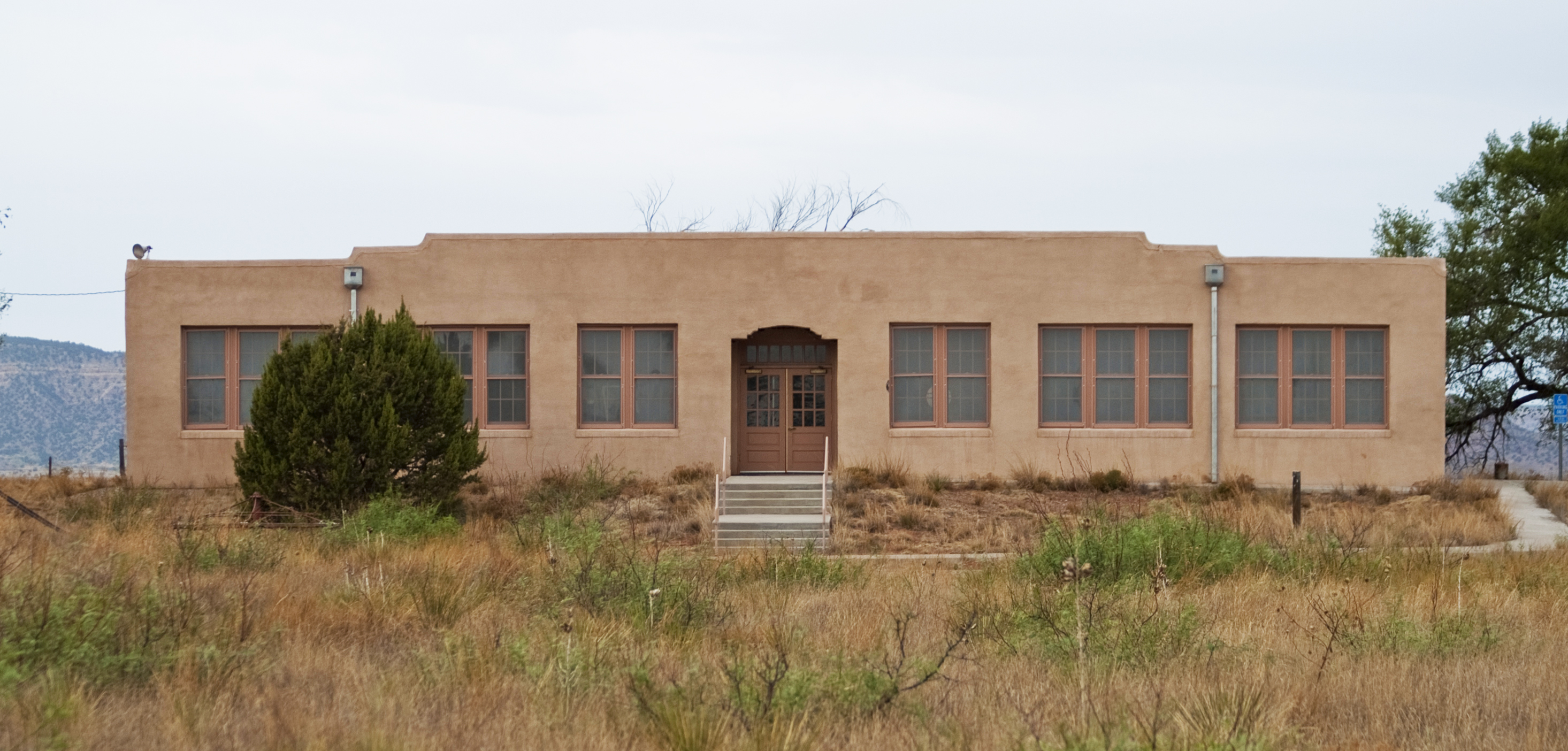 Former school in the ghost town of Quay, New Mexico.